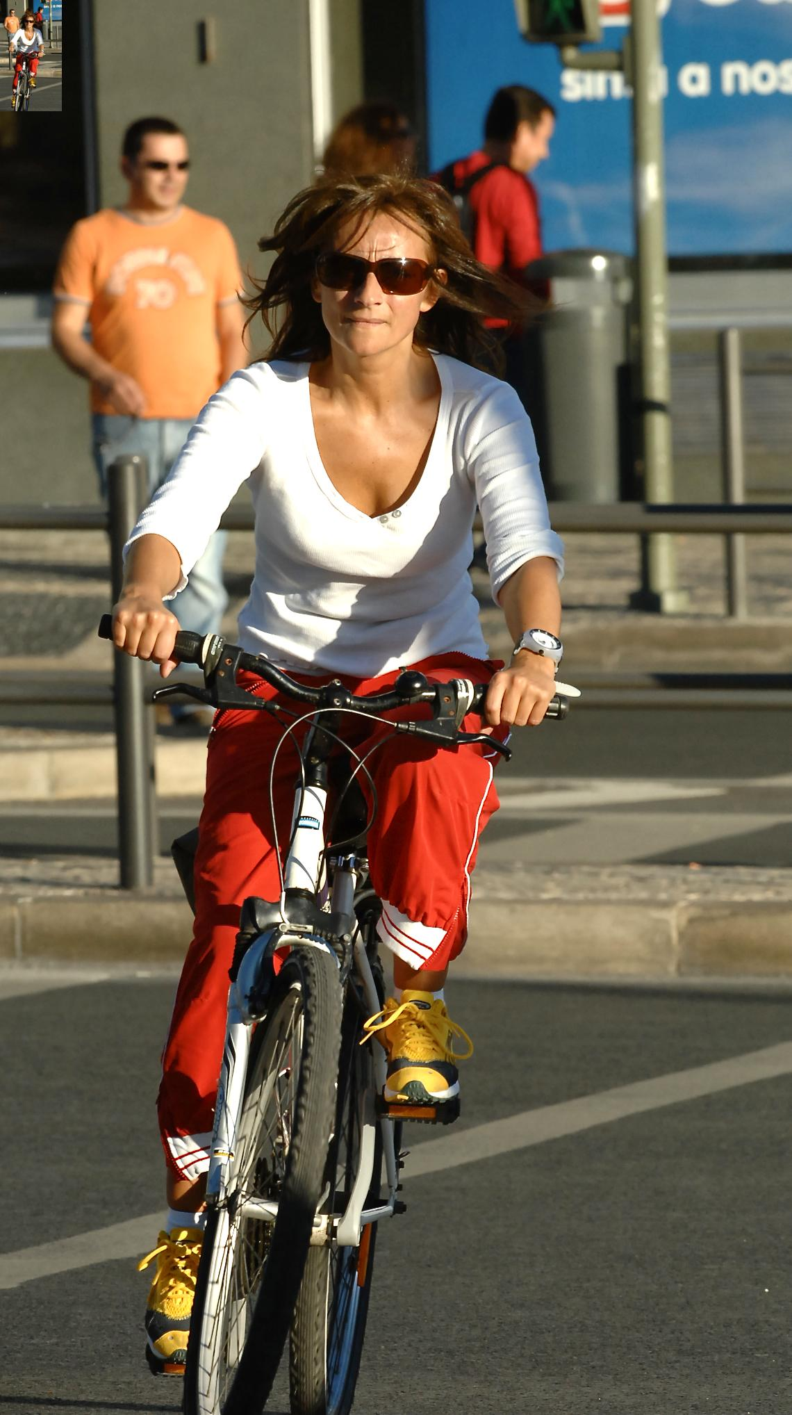 Woman on a bicycle set